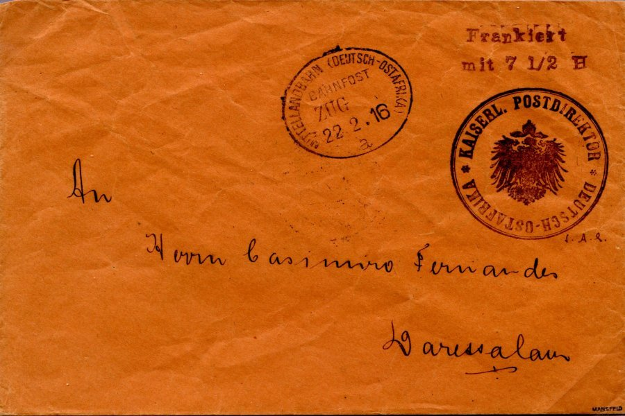 German East Africa. Indicium applied by postmaster.